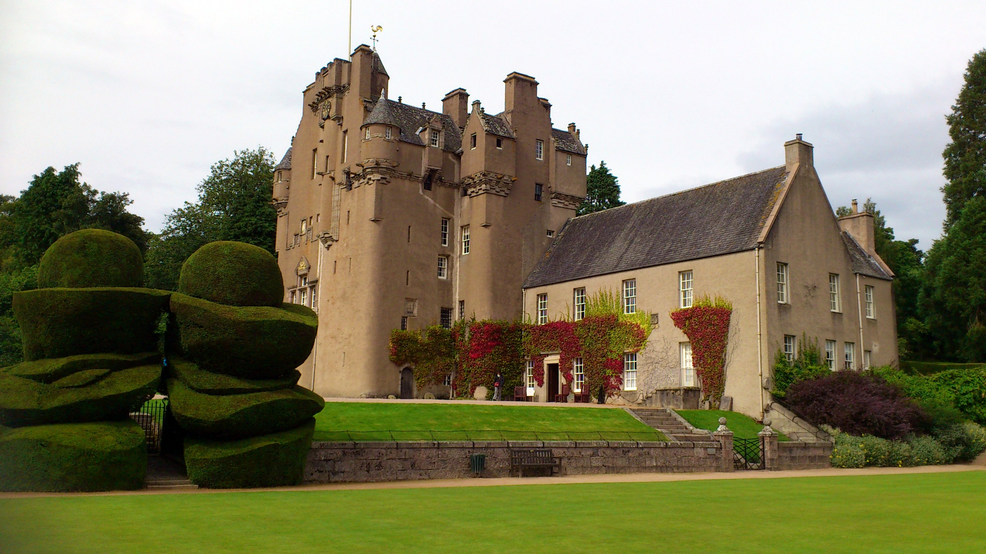 View of Crathes Castle from the garden